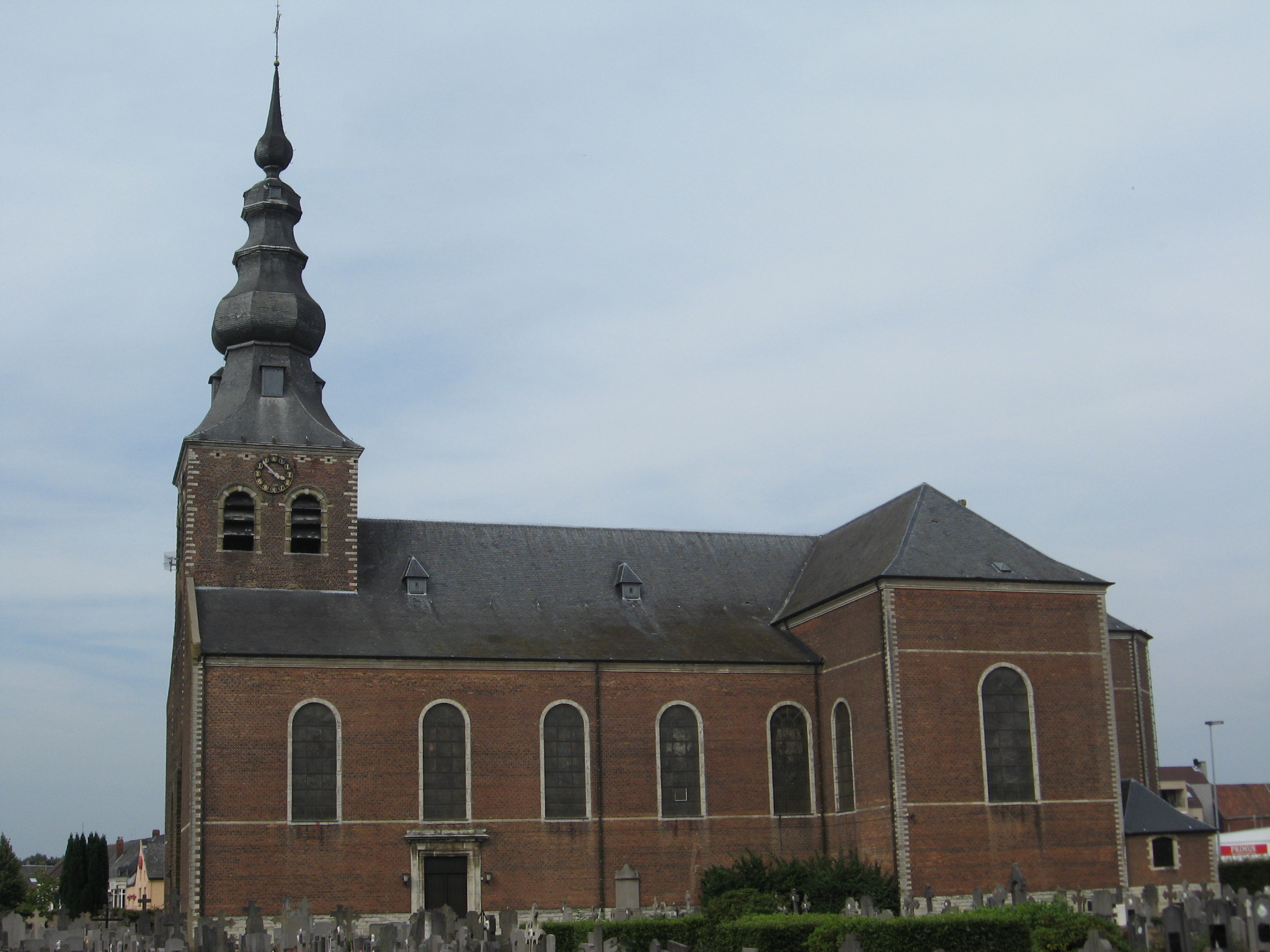 Church of Saint Trudo in Meerhout, Antwerp, Belgium